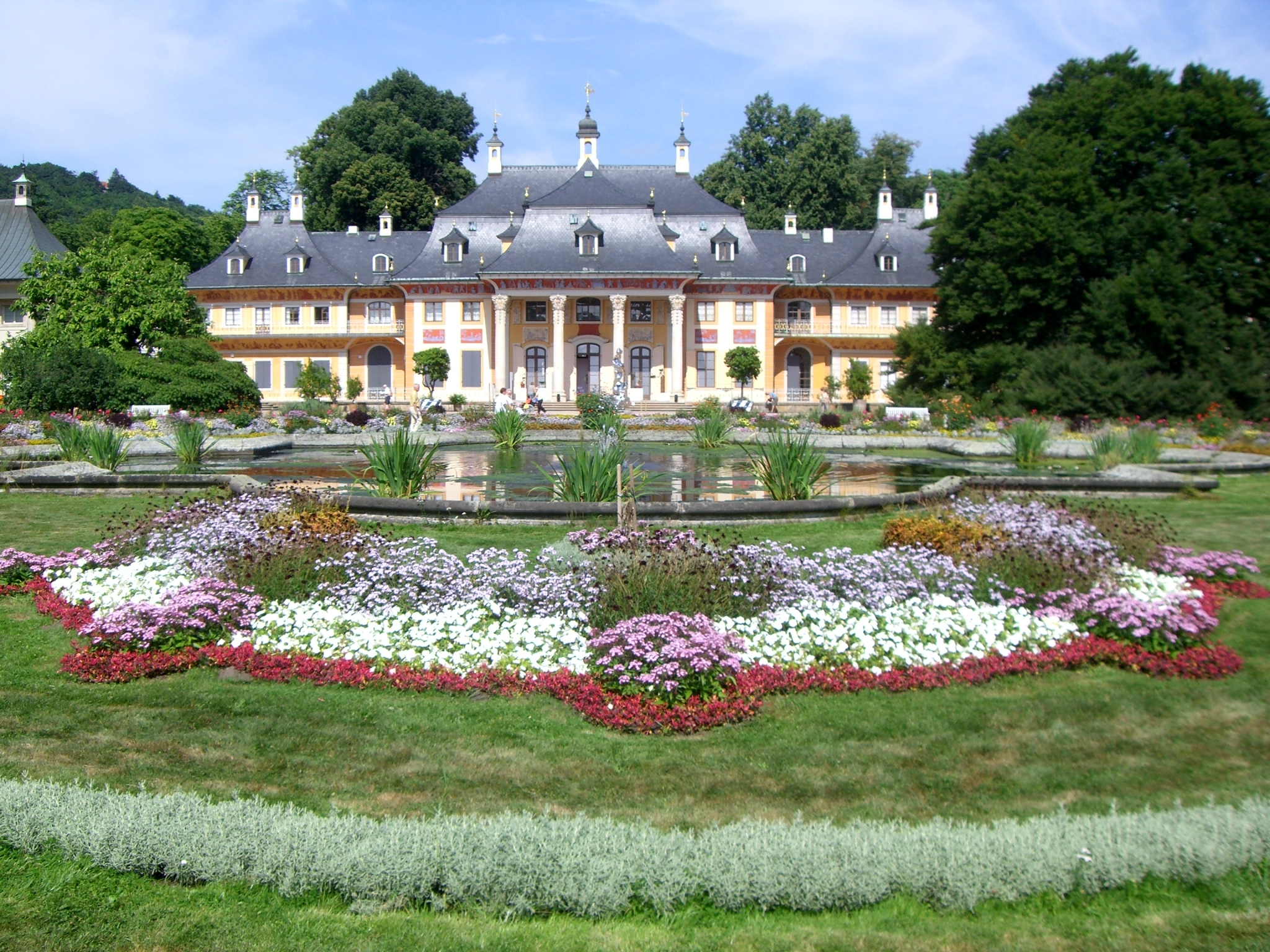 Pillnitz Castle near Dresden